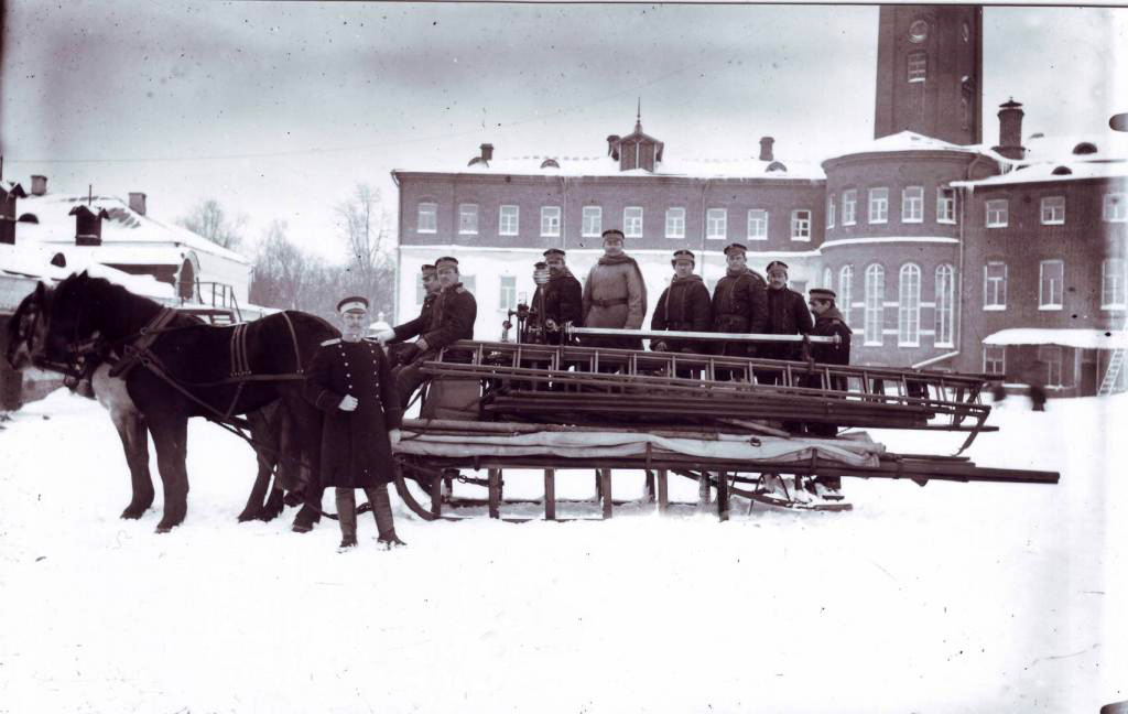 Smolensk fire brigade in 1910. In the background - the building of City Council (now - the house). Photographs were taken near the fire station (only preserved tower and coach travel).